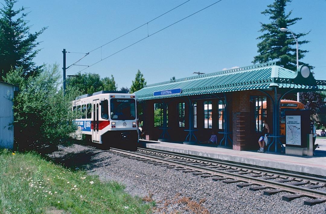 Gresham Central MAX station, known as Gresham Transit Center for buses (and formally as Gresham Central Transit Center) in 1989, when the outermost two-mile section of the then-one-route MAX system, in Gresham, was still mostly single-track. (And this was the only station located on a single-track section.) In this photo, an outbound train led by car 118 is arriving, and in the background a bus is laying over on line 9-Powell. (The bus had been mistakenly, temporarily fitted with an old rollsign, showing the route name in all capital letters, a style that had been out of use at TriMet since 1986). In 1995–96, the single-track section of what was then the Portland area's only light rail line was converted to double-track, and single-track operation did not return to the MAX system until the opening of the Airport line (Red Line), in 2001. Note the "Central" sign on the shelter's roof. Although the MAX station and bus transit center have been a single facility since the MAX line was built, TriMet regularly refers to the facility as "Gresham Transit Center" (or Gresham TC), without "Central", for buses, and often as "Gresham Central station" for MAX, particularly in the line's early years.